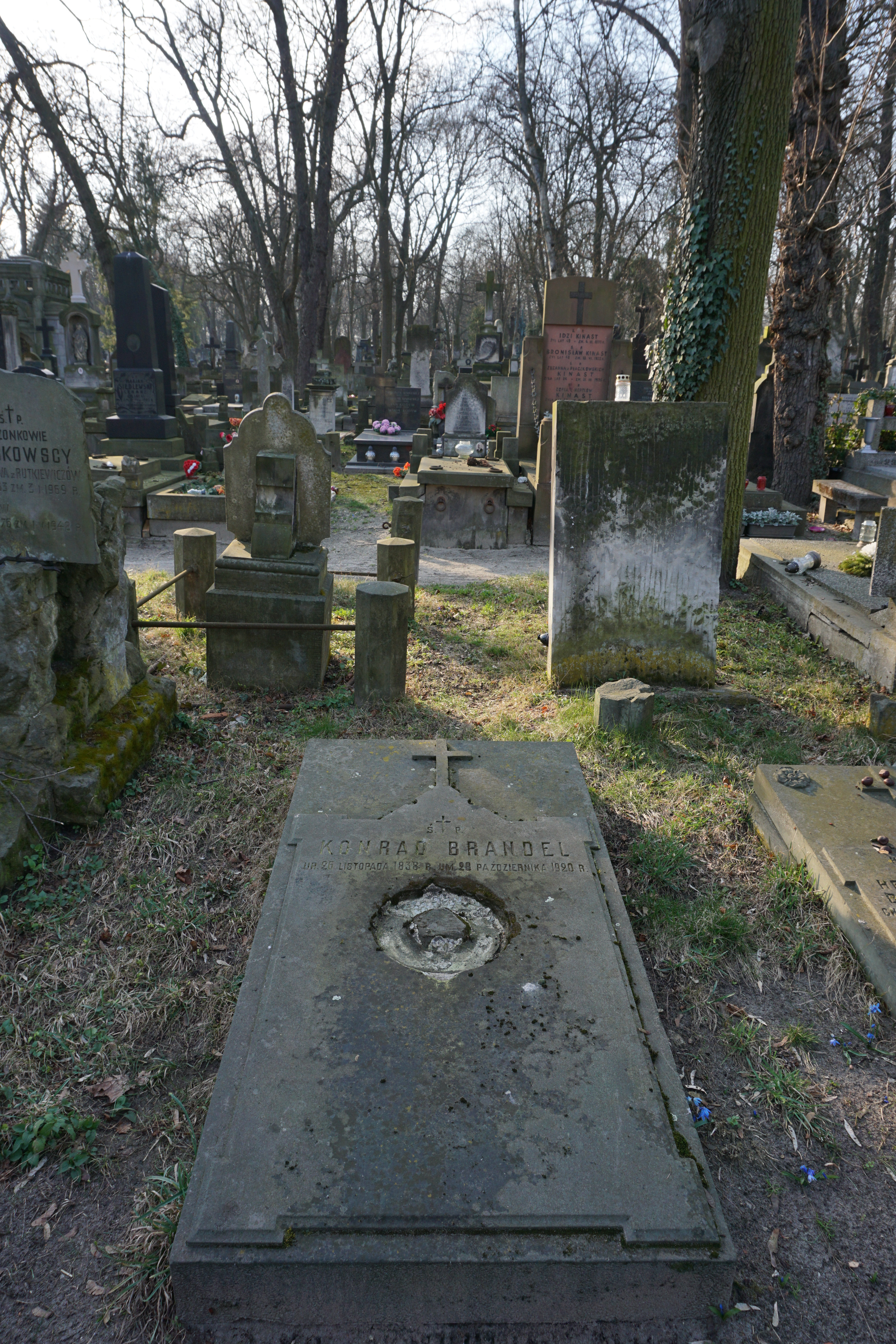 The grave of Konrad Brandel at the Powązki Cemetery (section 175, row 1, grave 14)